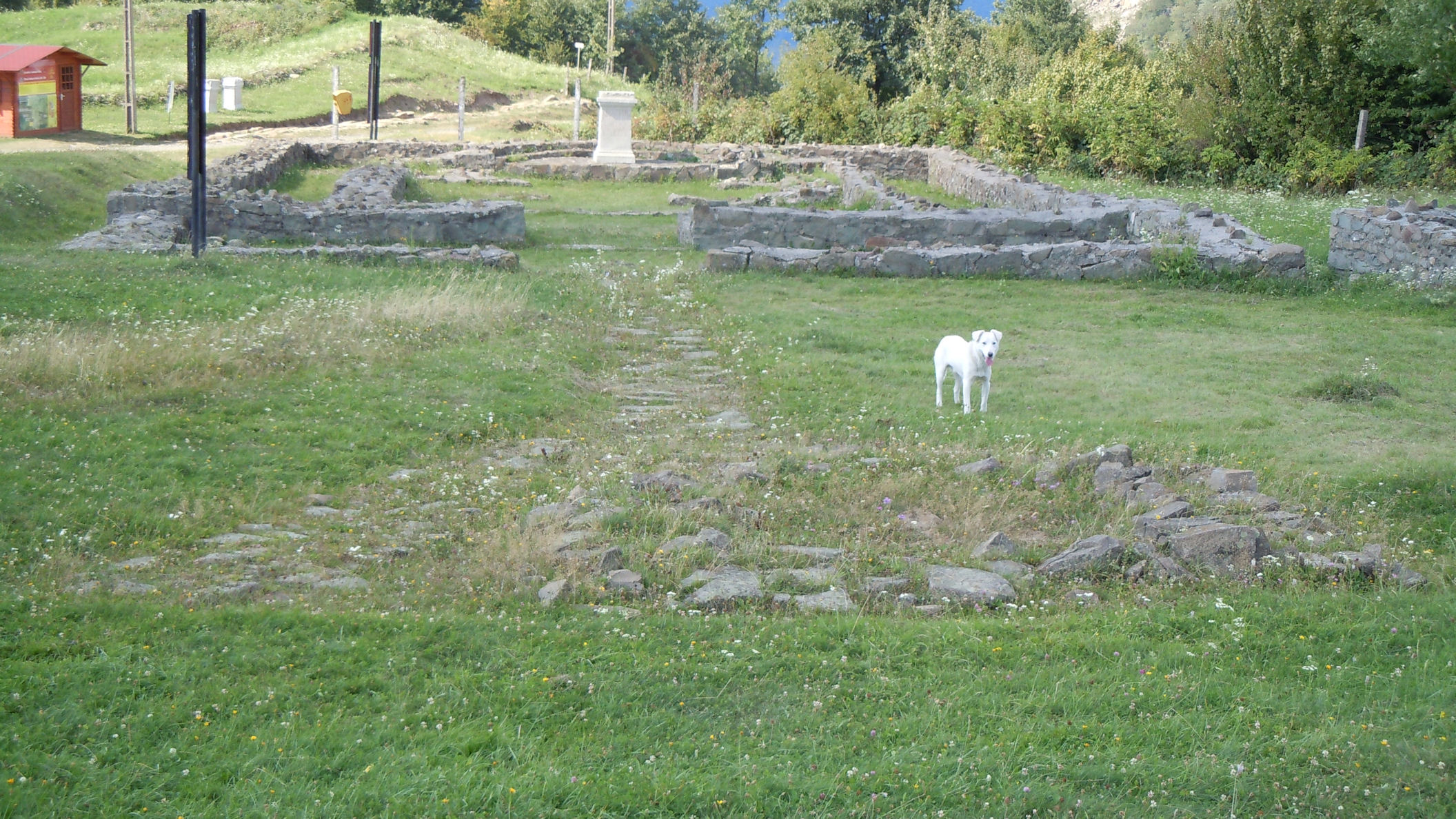 Liber Pater's Temple of Porolissum 04